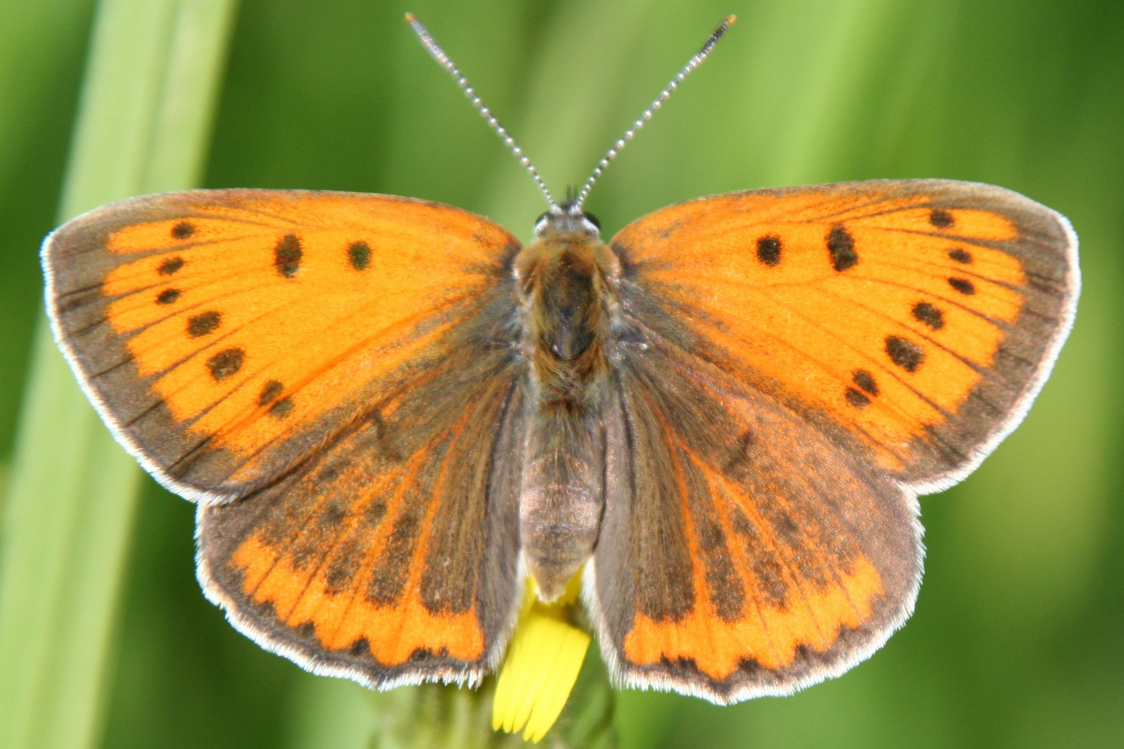 A female of the Large Copper butterfly (Lycaena dispar), photographed in Obersulm-Affaltrach on a meadow near the Sulm river